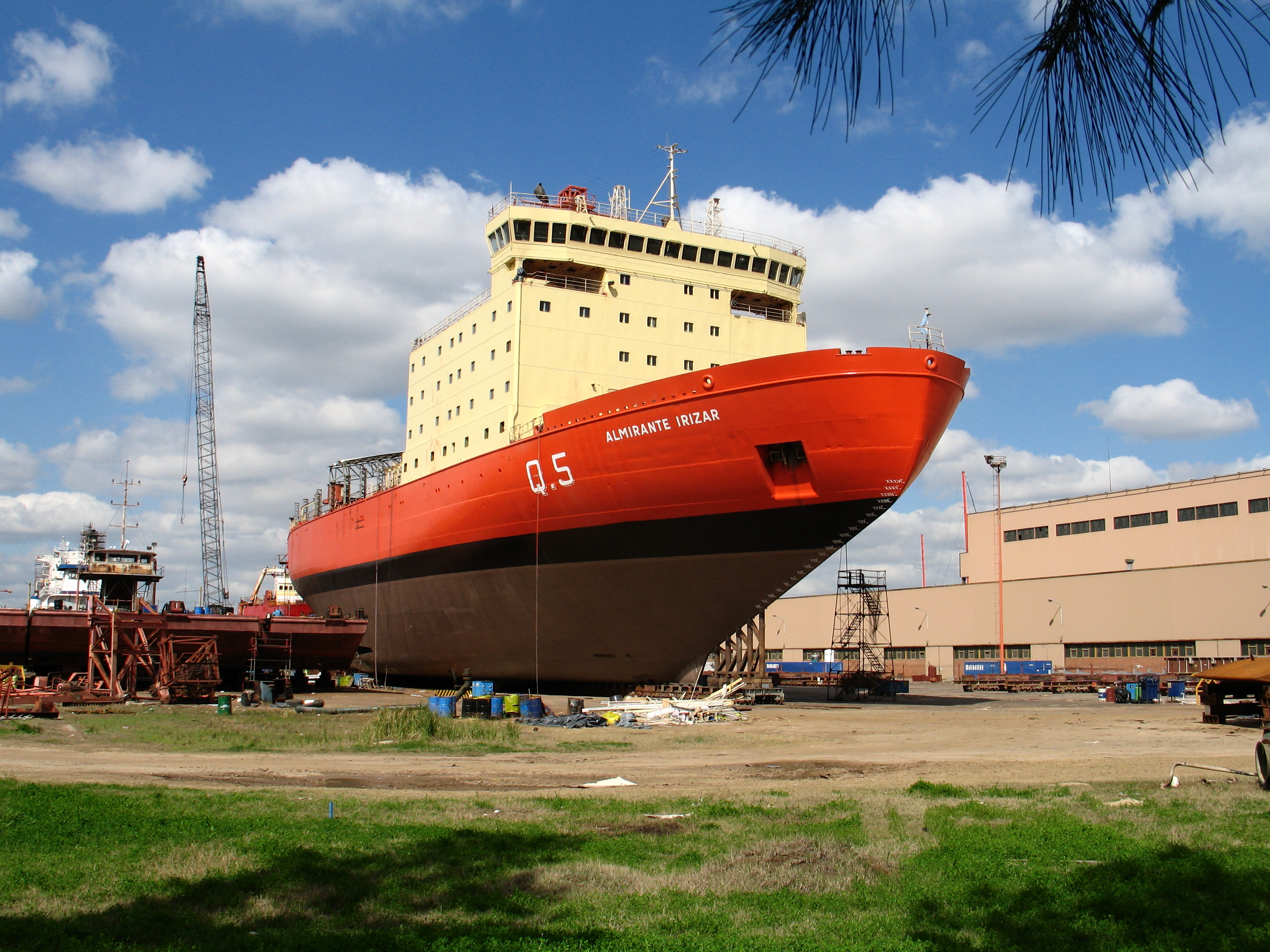 Icebreaker "Almirante Irizar" of Argentinian Army